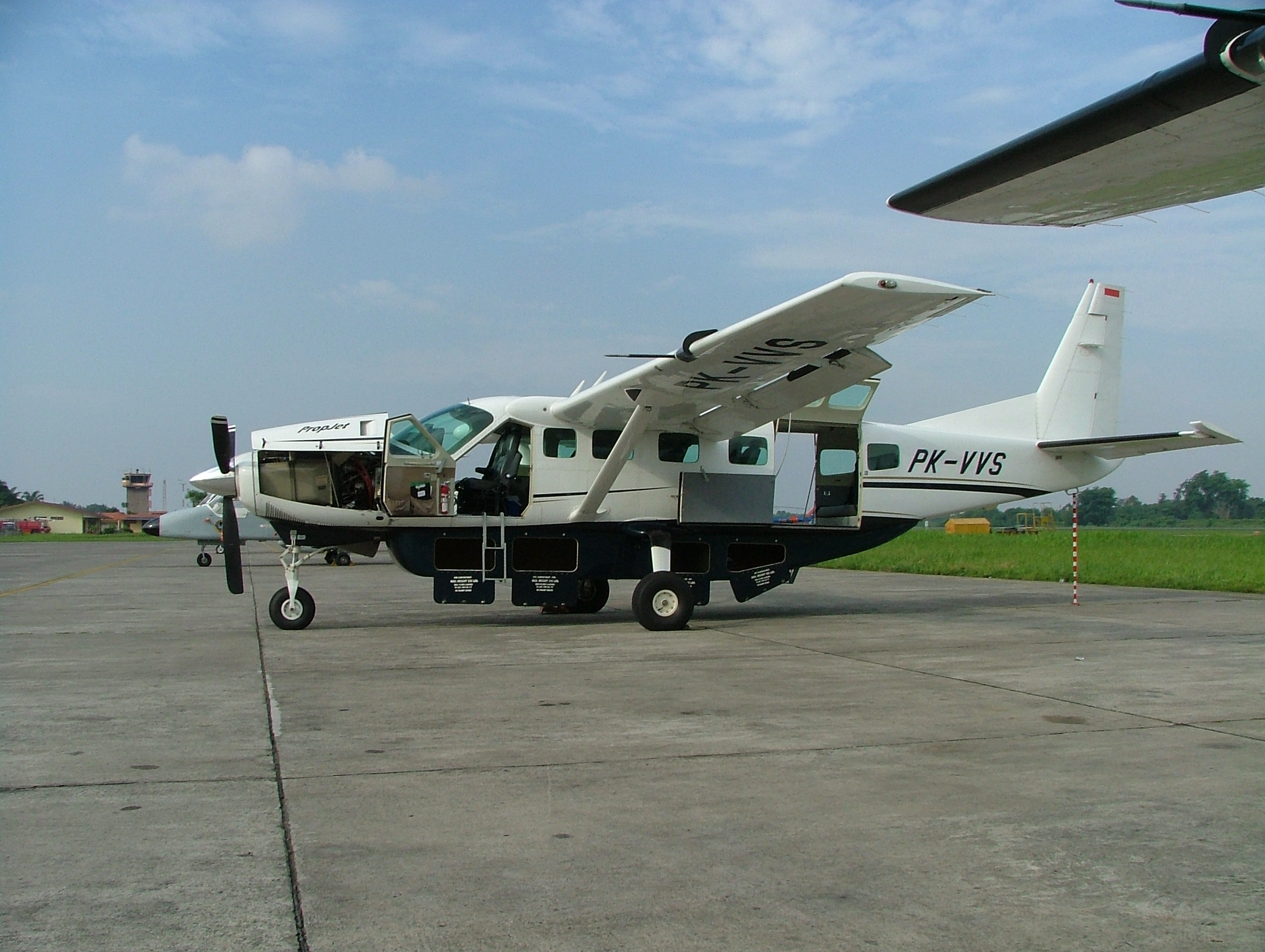 Susi Air Cessna Grand Caravan on the delta apron at Polonia International Airport, Medan, North Sumatra, Indonesia